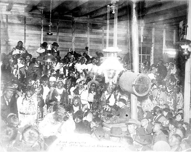 Stick Indians also know as Tagish Indians . Caption on image: "Dance given by the Stick's at the potlach at Klukwan. Oct 15 '98 Subjects (LCSH): Tlingit Indians--Alaska--Klukwan; Indians of North America--Clothing and dress; Potlatch--Alaska--Klukwan